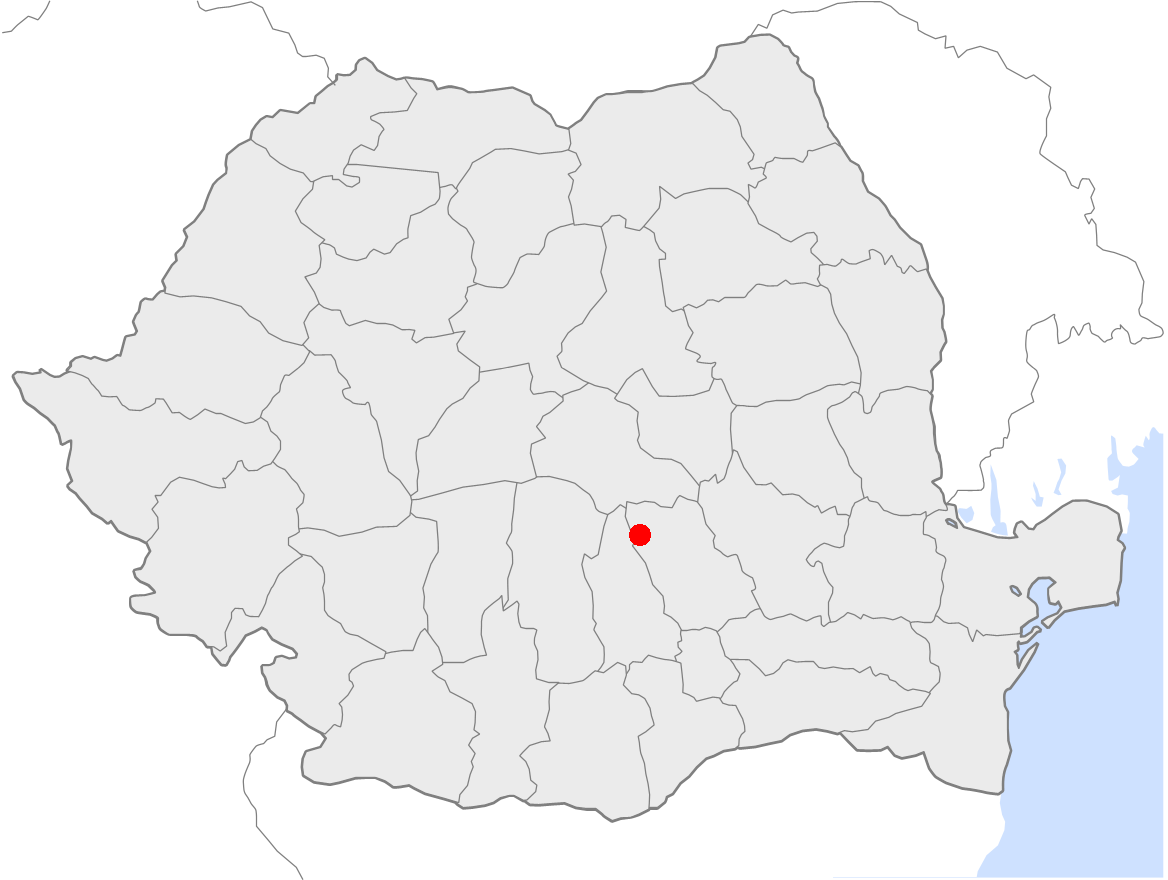 Location of Sinaia in Romania.